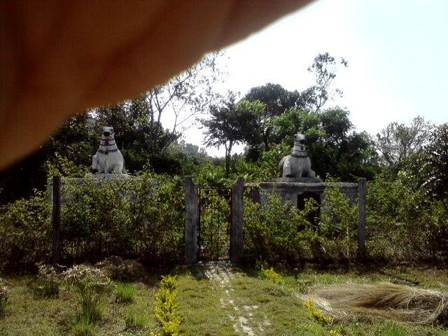 nandi statue at gadduge